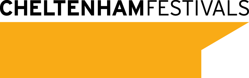 Logo of the Cheltenham Festivals